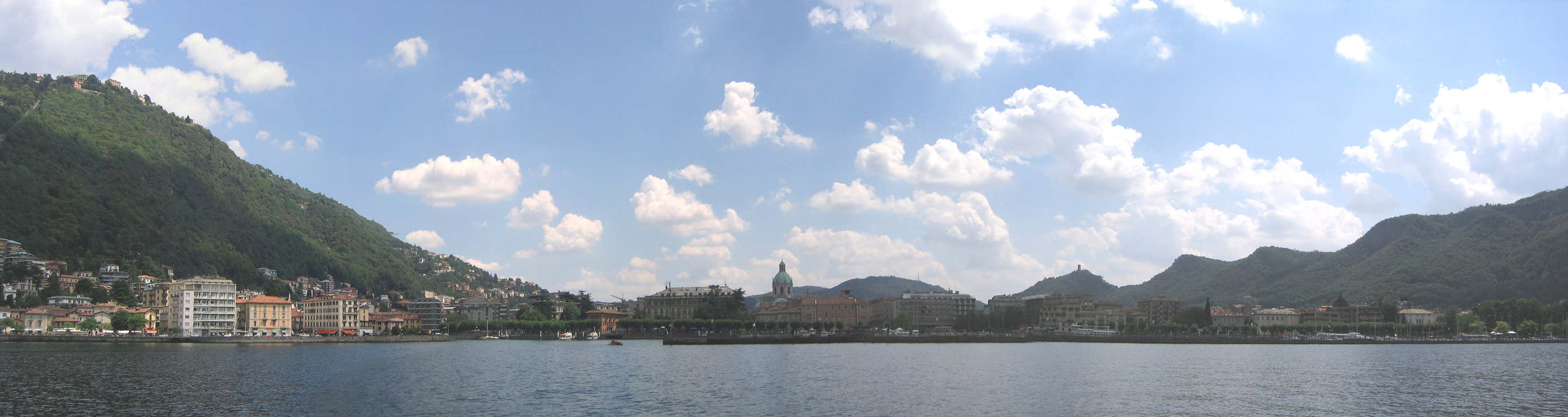 Panoramic image of the shoreline of Como, Italy taken from a rented paddleboat situated a few hundred meters from the docks.